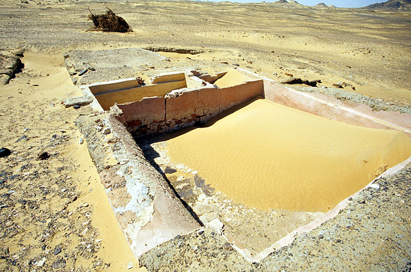 Wine factory south of the Roman fort, Libyan desert, Egypt